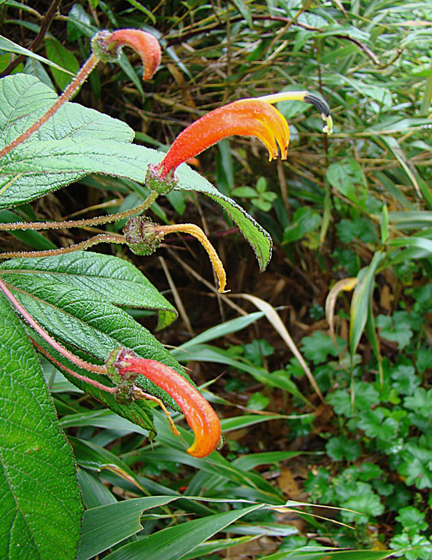 Native to the mountains from Guatemala to Peru. Photo from Volcan Baru, Panama. In context at